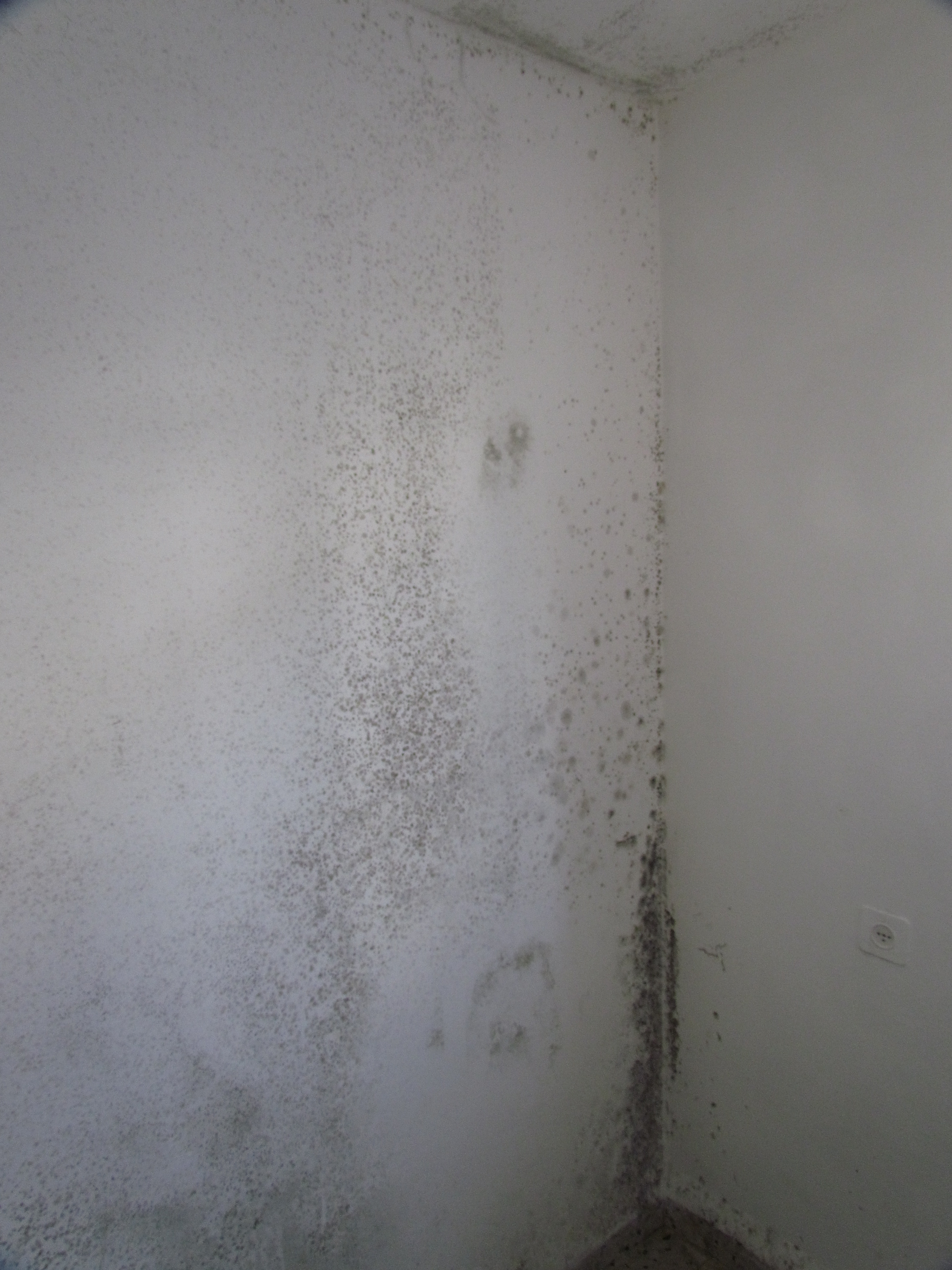 Mold on a wall